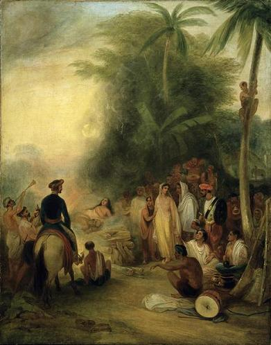 Suttee, in the India Office Collection of the British Library, presented by his son James Augustus Atkinson.